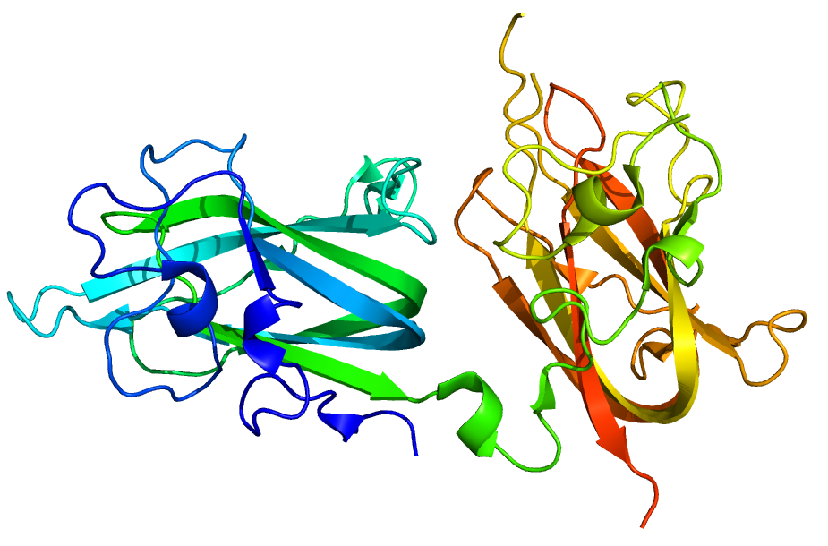 Structure of protein NRP2.Based on PyMOL rendering of PDB 2QQJ.